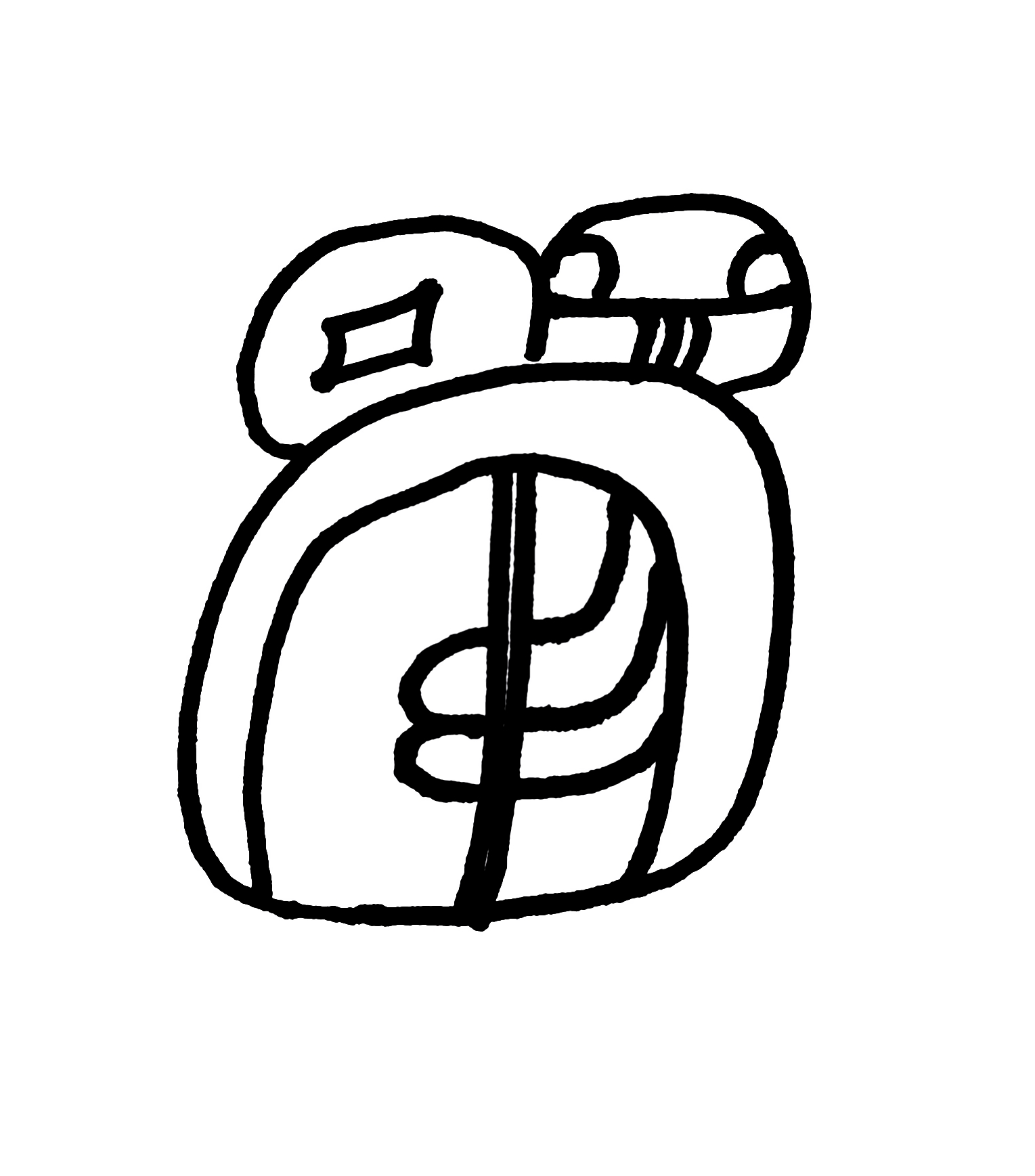 Maya logogram - 'AJAW ("lord, king")